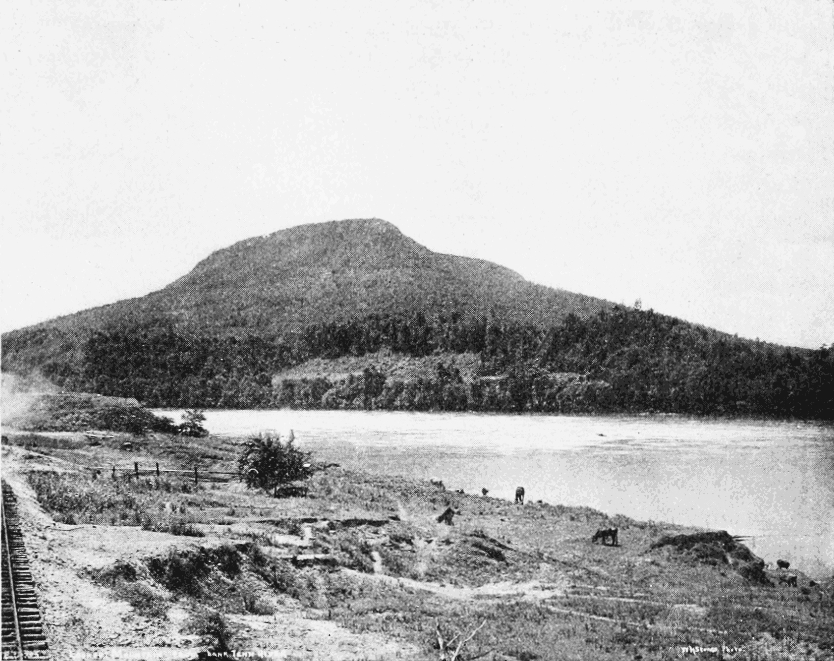 Lookout mountain from the bank of the Tennessee river